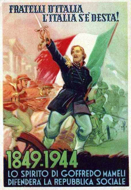 Propagandistic picture for Repubblica Sociale Italiana with Risorgimental issue